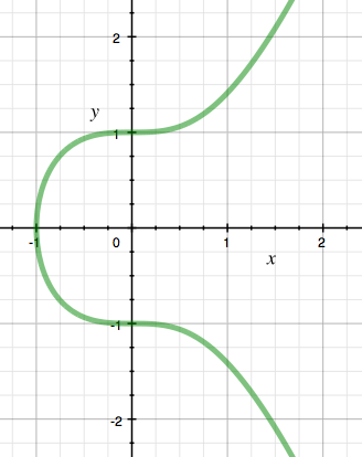 Created in Grapher Parameter k=1